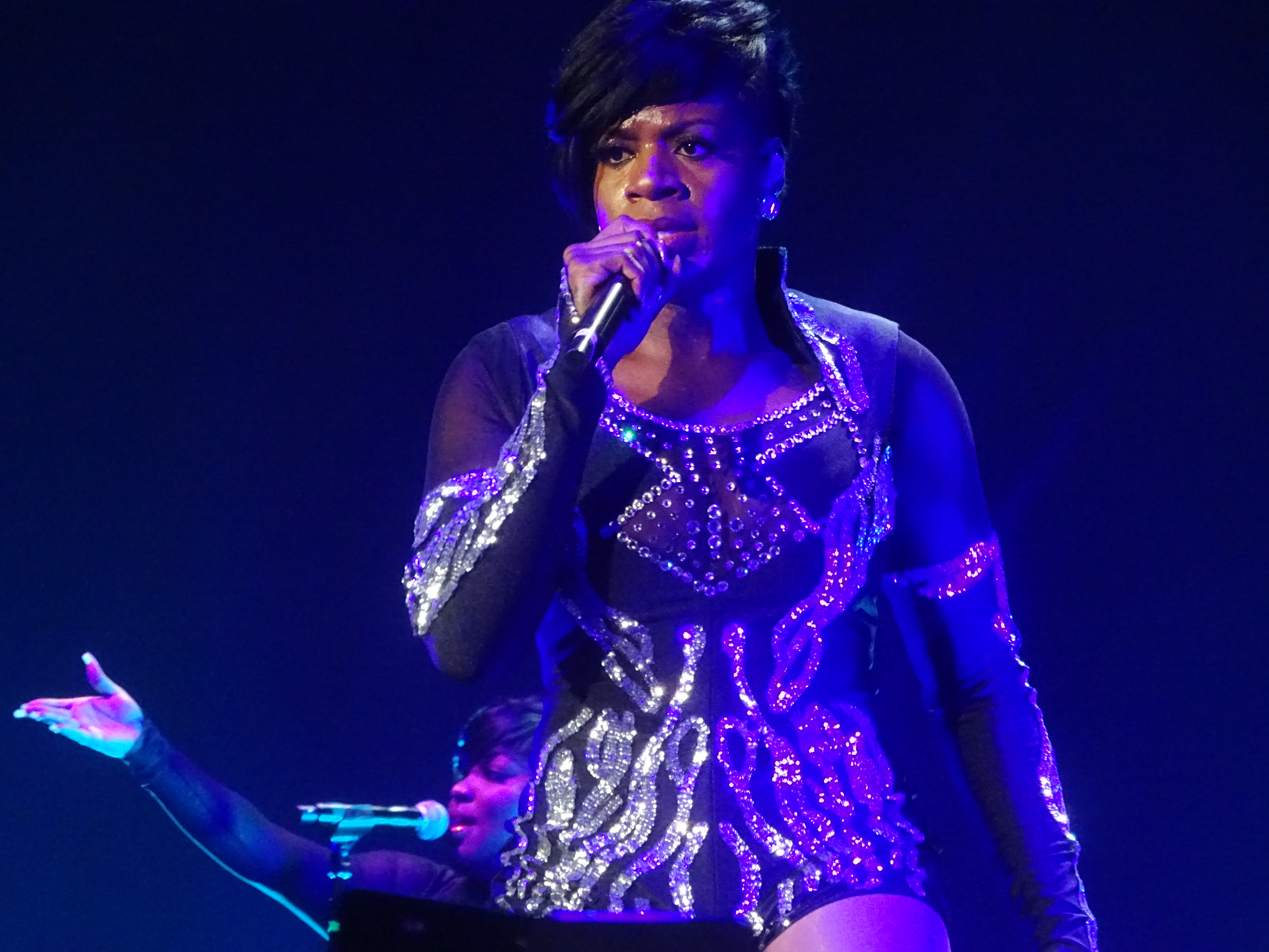 Fantasia performing in Cincinnati, February 2017